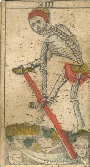 Trump card from the Renault tarot of Besançon.